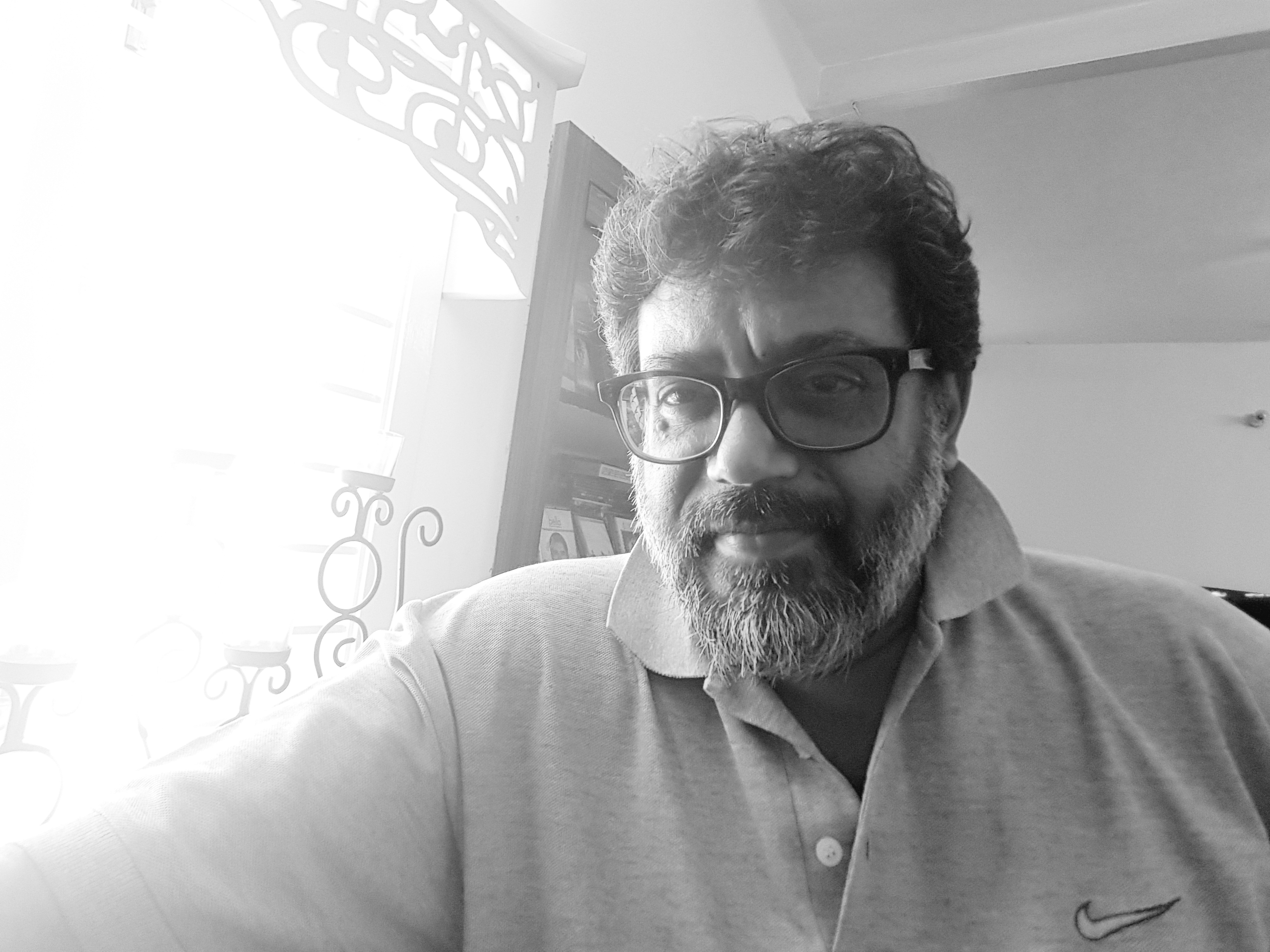 Art Director M.Prabakaran_2